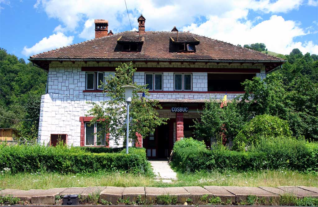 The Station of Cosbuc